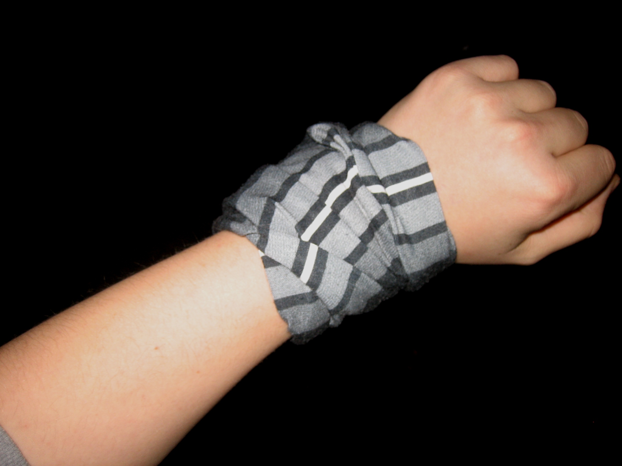 Buff headgear worn as wristband